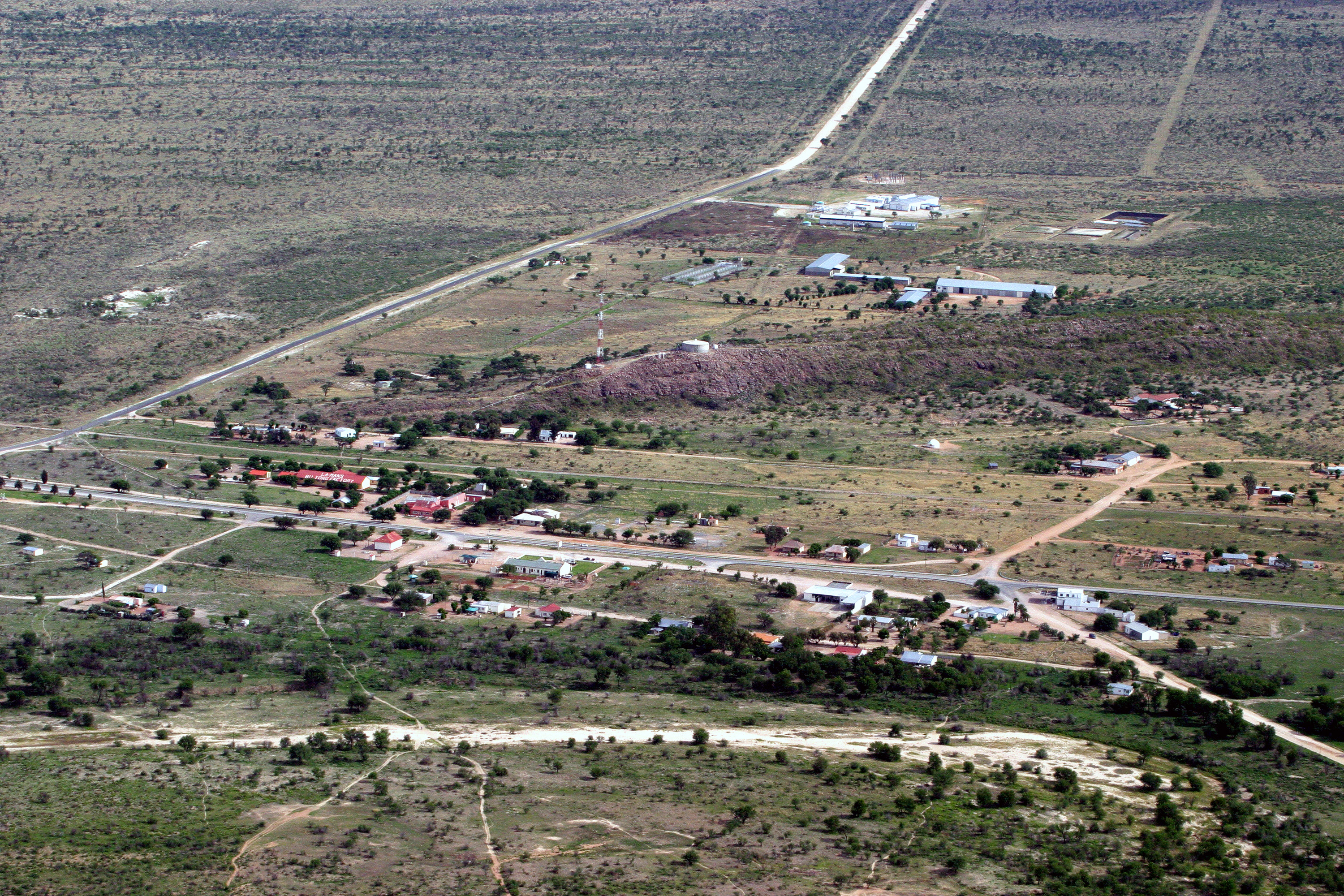 Aerial photography of Witvlei, Namibia. View from the South towards city centre at the B6 national road, which runs here as part of the Trans-Kalahari-Highway from West to East (in the image from the left to the right). In the upper part of the photograph you can find the properties of the butchery.